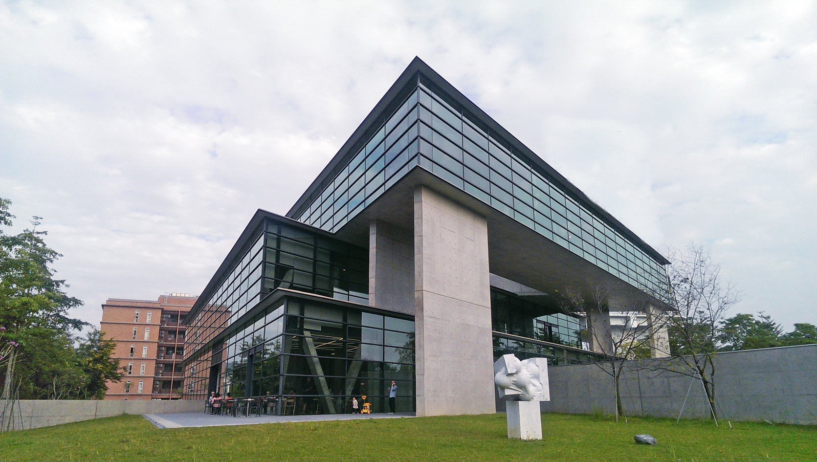 Asia Museum of Modern Art, Asia University